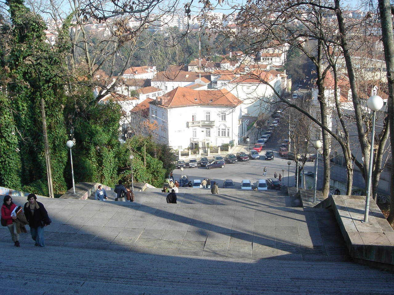 Monumental stairs in Coimbra.